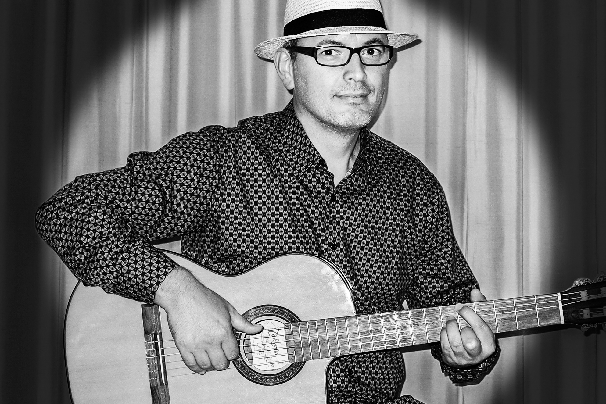 Musician, voice-over artist, photographer and writer